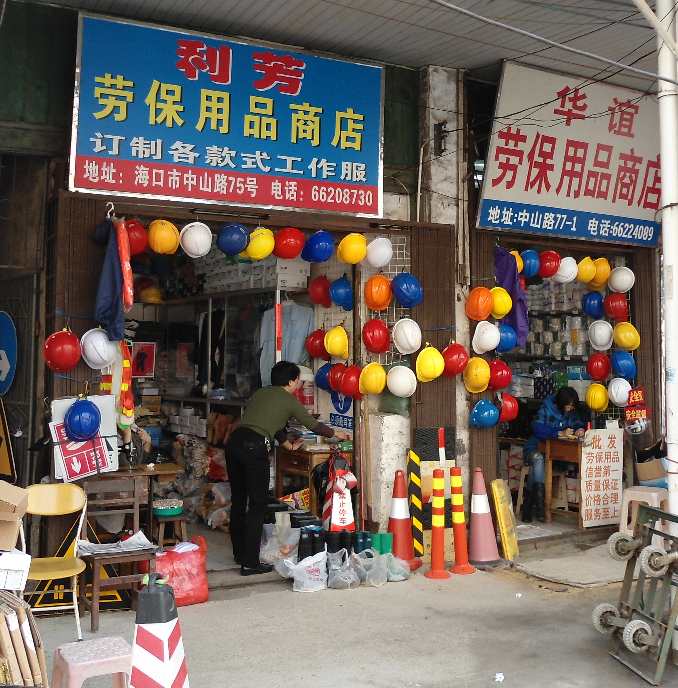 Hardware stores in China specializing in safety equipment, etc. in Haikou, Hainan Province, People's Republic of China